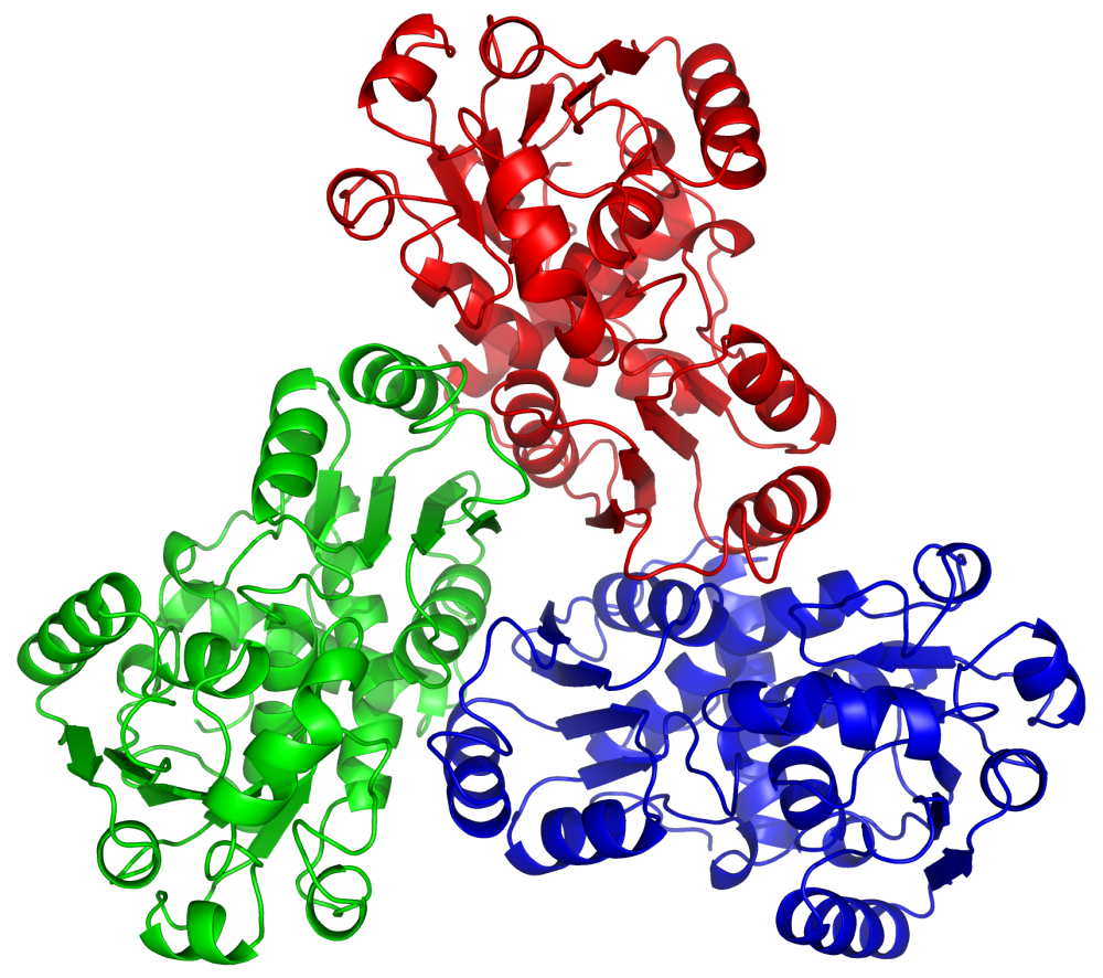 Ribbon diagram of a human ornithine transcarbamylase trimer. Created using PyMOL ( and GIMP.